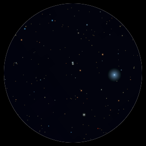 Epsilon Lyrae